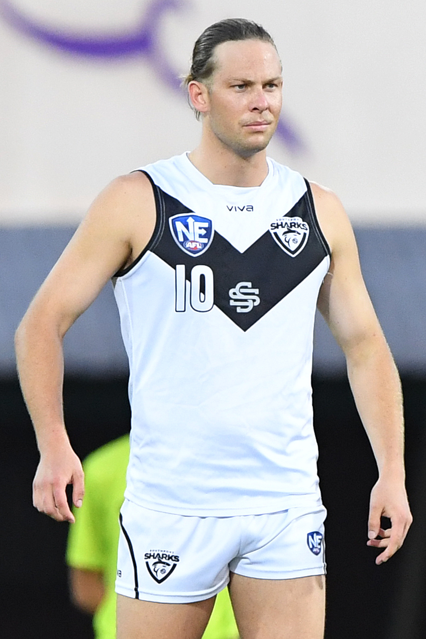 Josh Clayton of Southport during the 2018 NEAFL round 20 match between NT Thunder and Southport at TIO Stadium on 18 August 2018 in Darwin, Northern Territory.